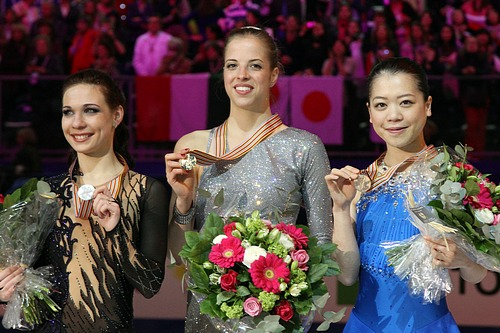 Podium medal ceremony for women's figure skating at the 2012 World Championships. (L-R) Alena Leonova (2nd place), Carolina Kostner (1st place), Akiko Suzuki (3rd place)